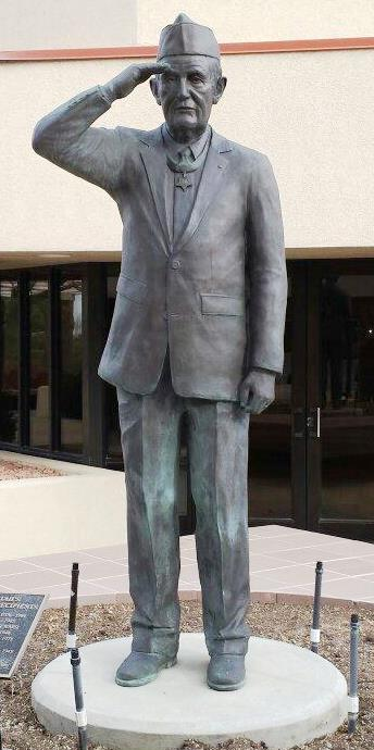 Life size statue of Medal of Honor recipient George E Wahlen at the Utah Valley Memorial Veterans Cemetery.